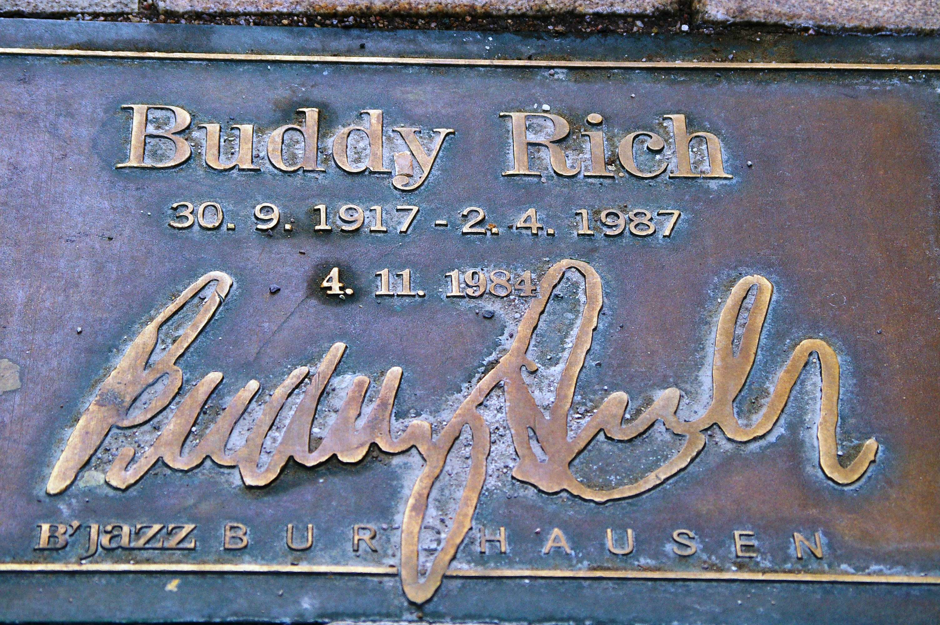 Street of Fame Burghausen